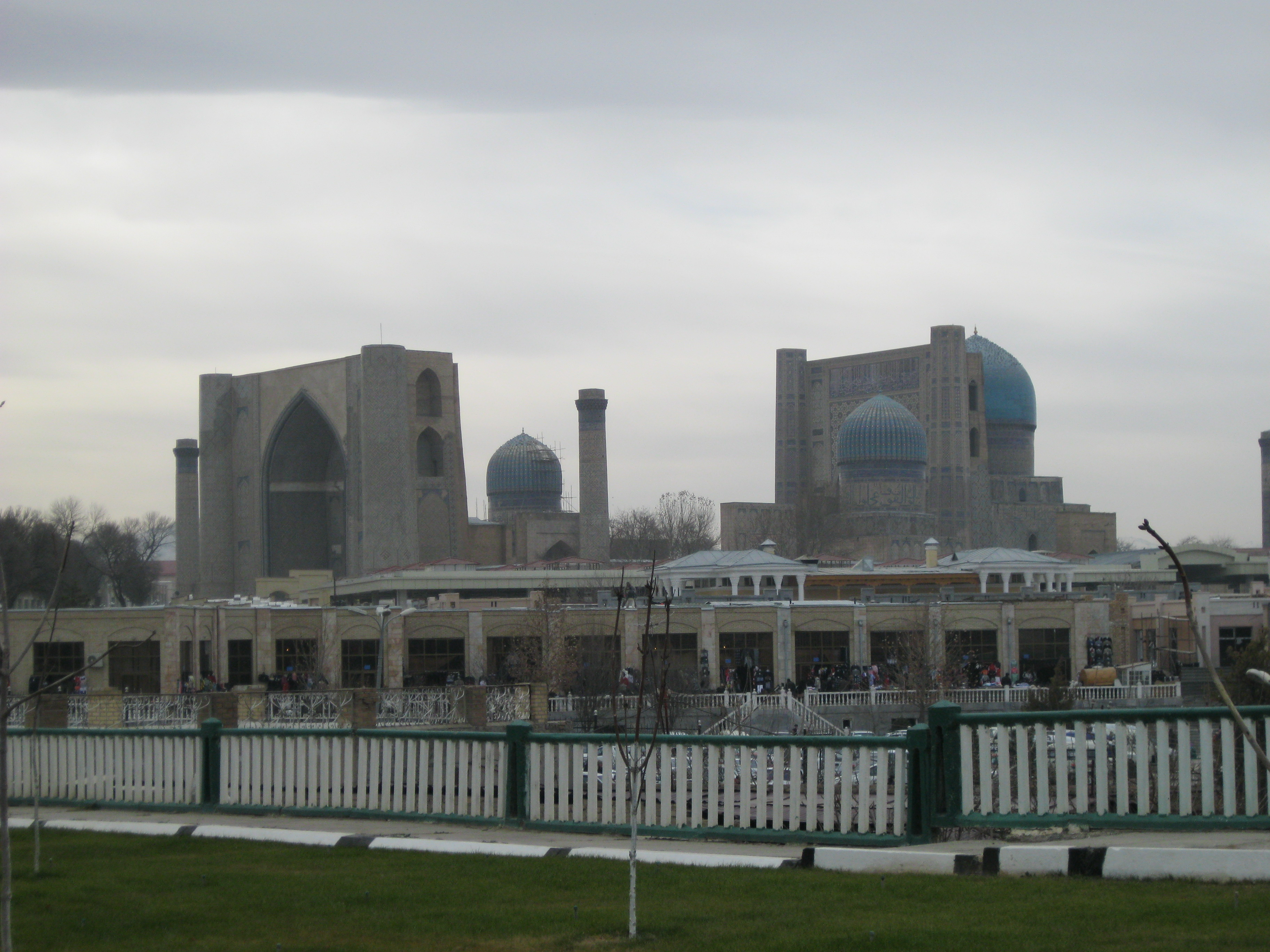 Friday mosque of Tamerlane